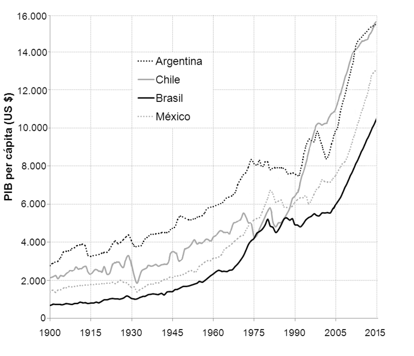 Comparison of GDP per capita of some Latin American Countries Source: Angus Madisson, World Population, GDP and Per Capita GDP, 1-2010 AD